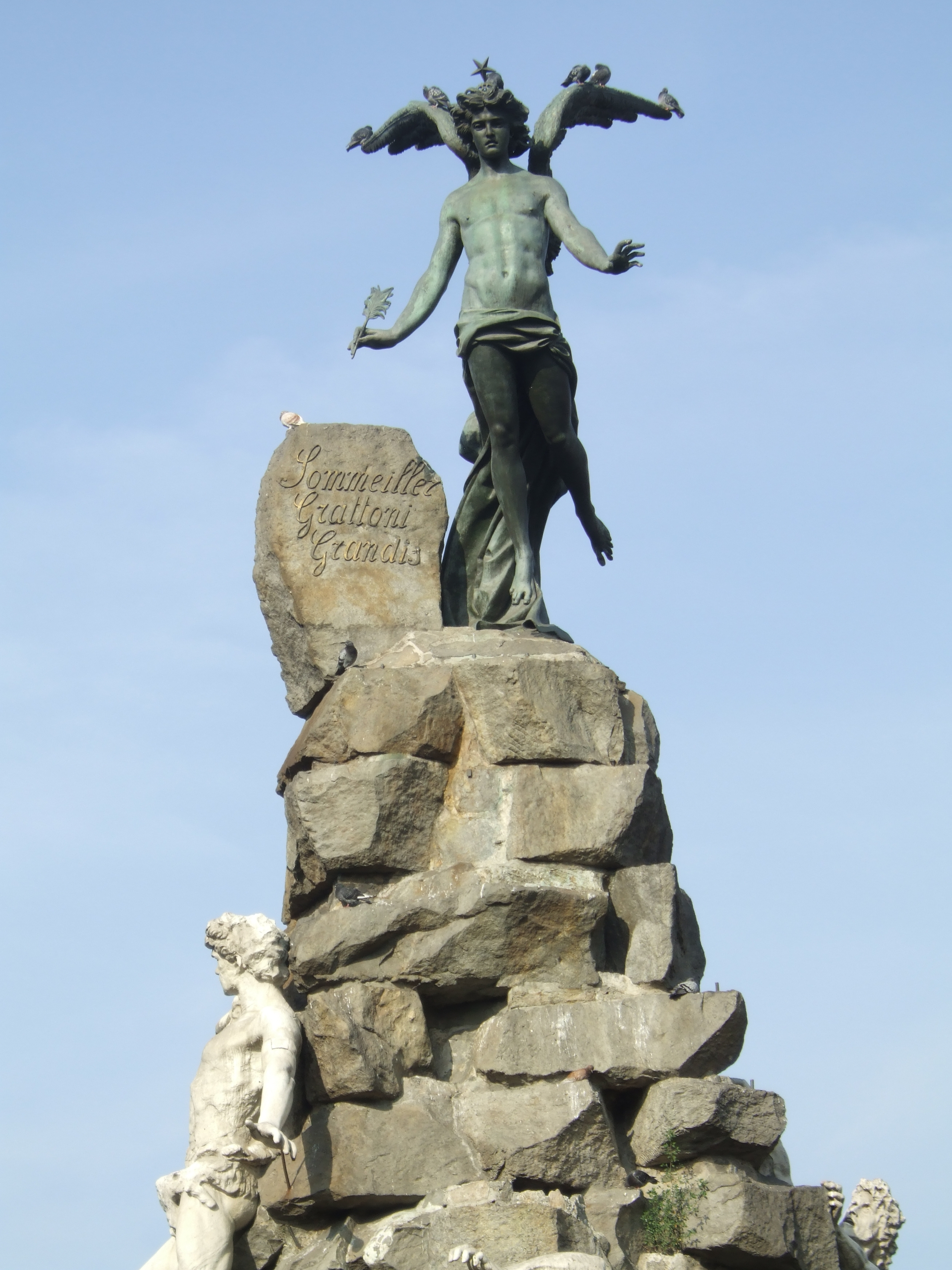 Memorial of the Frejus Tunnel works in Turin (Italy) - Detail